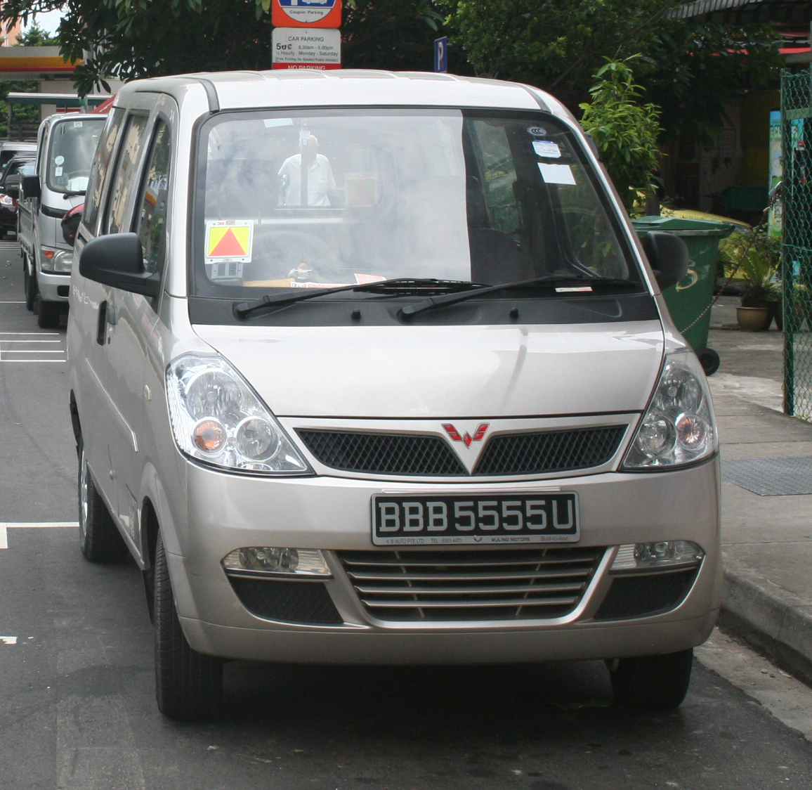 Wuling LZW6381-C3 'Sunshine' in Singapore. Sold as Wuling Hongtu and Chevrolet N200 elsewhere.